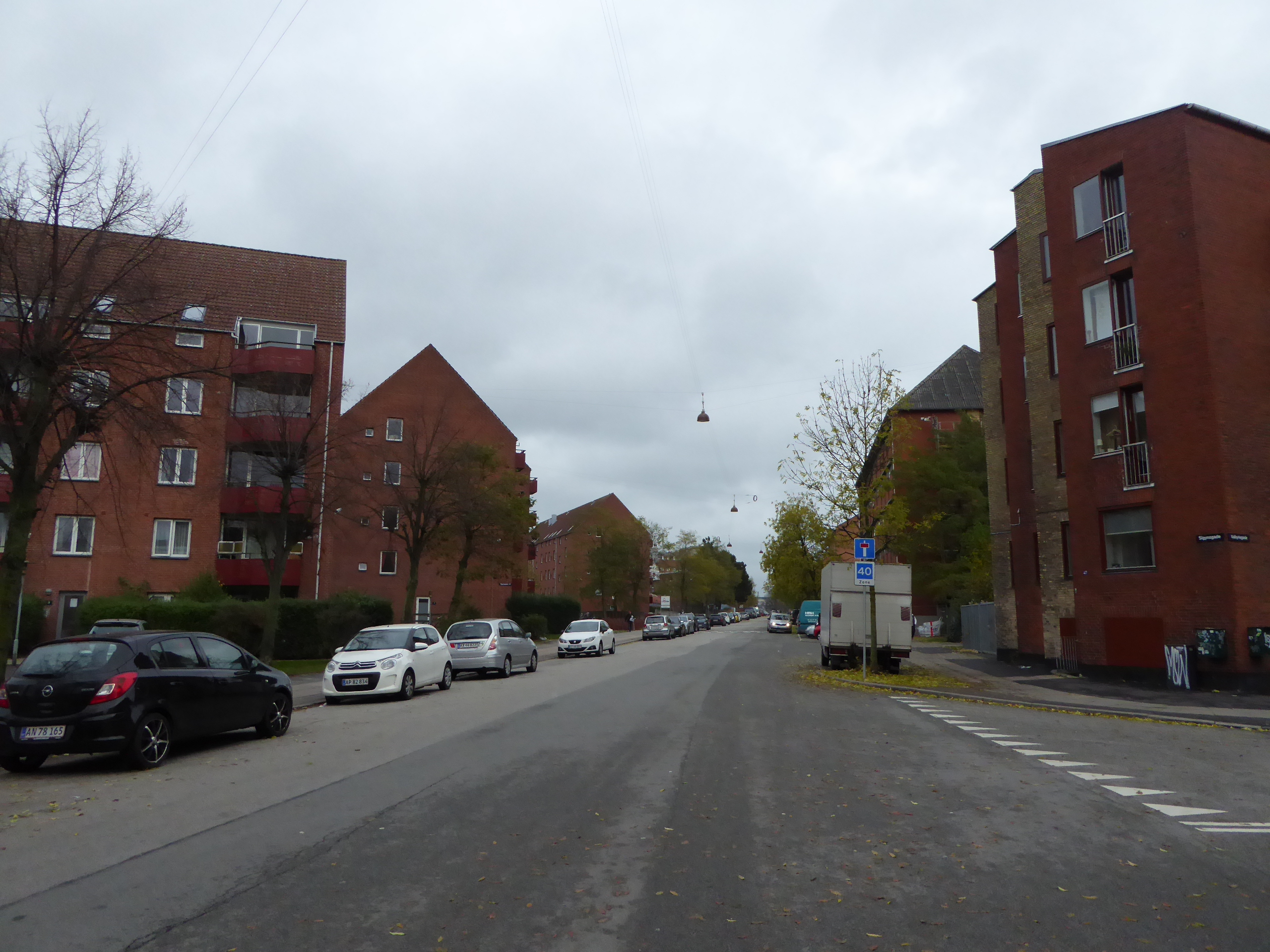 The street Sigynsgade in Nørrebro in Copenhagen.